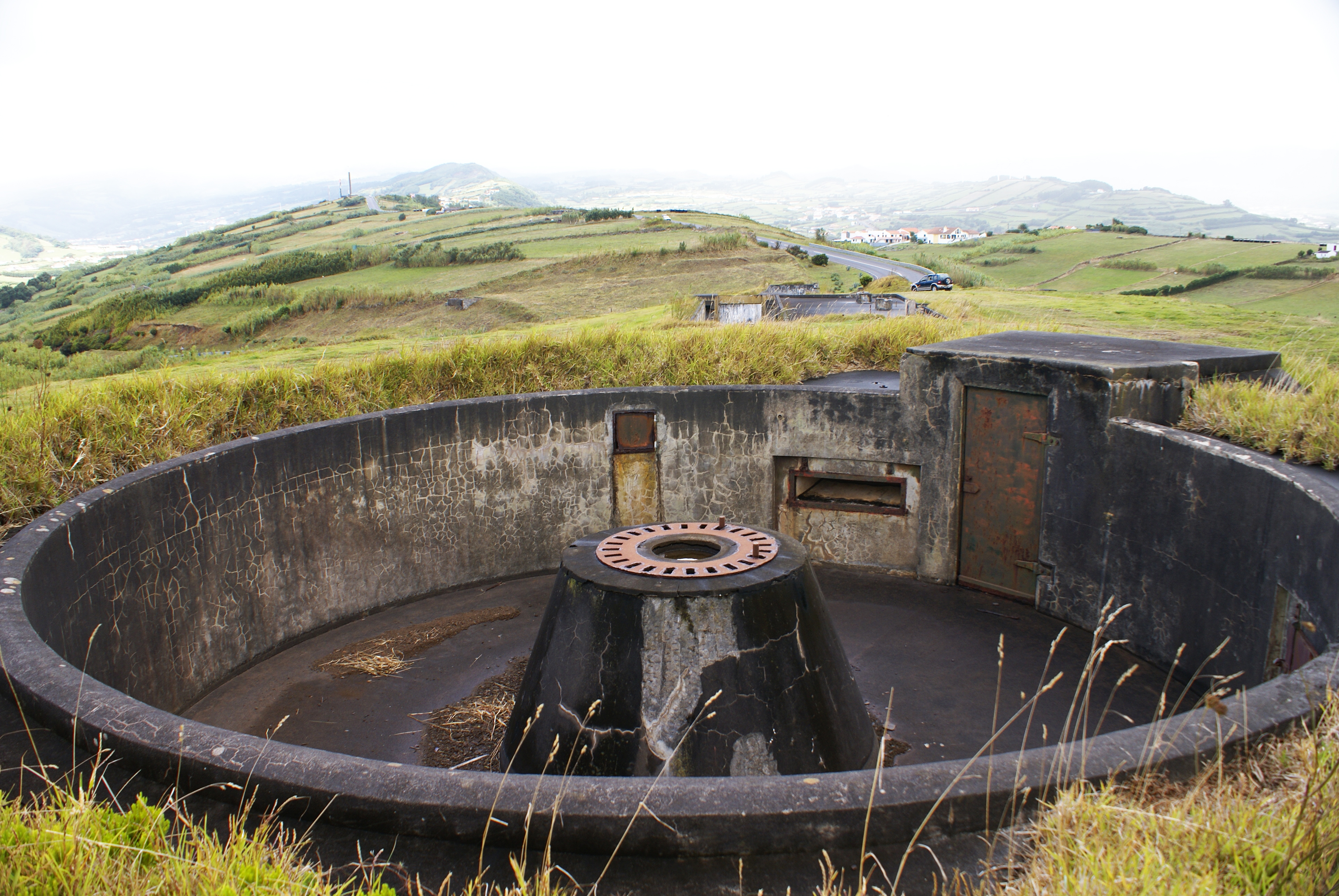 Posição militar da Ponta da Espalamaca, concelho da Horta, ilha do Faial, Açores, Portugal